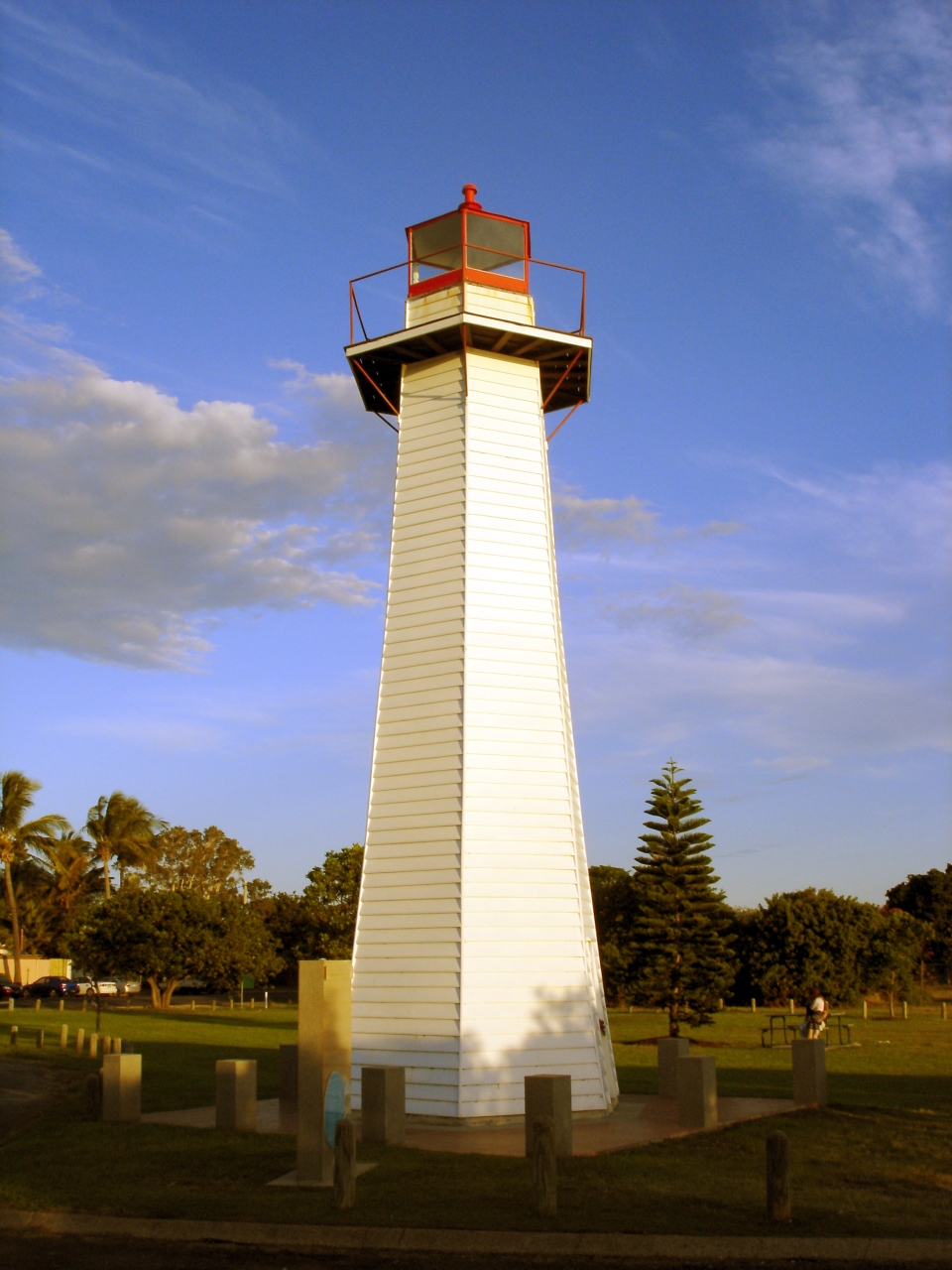 Photograph taken by me of the Cleveland Point Lighthouse in April 2006.